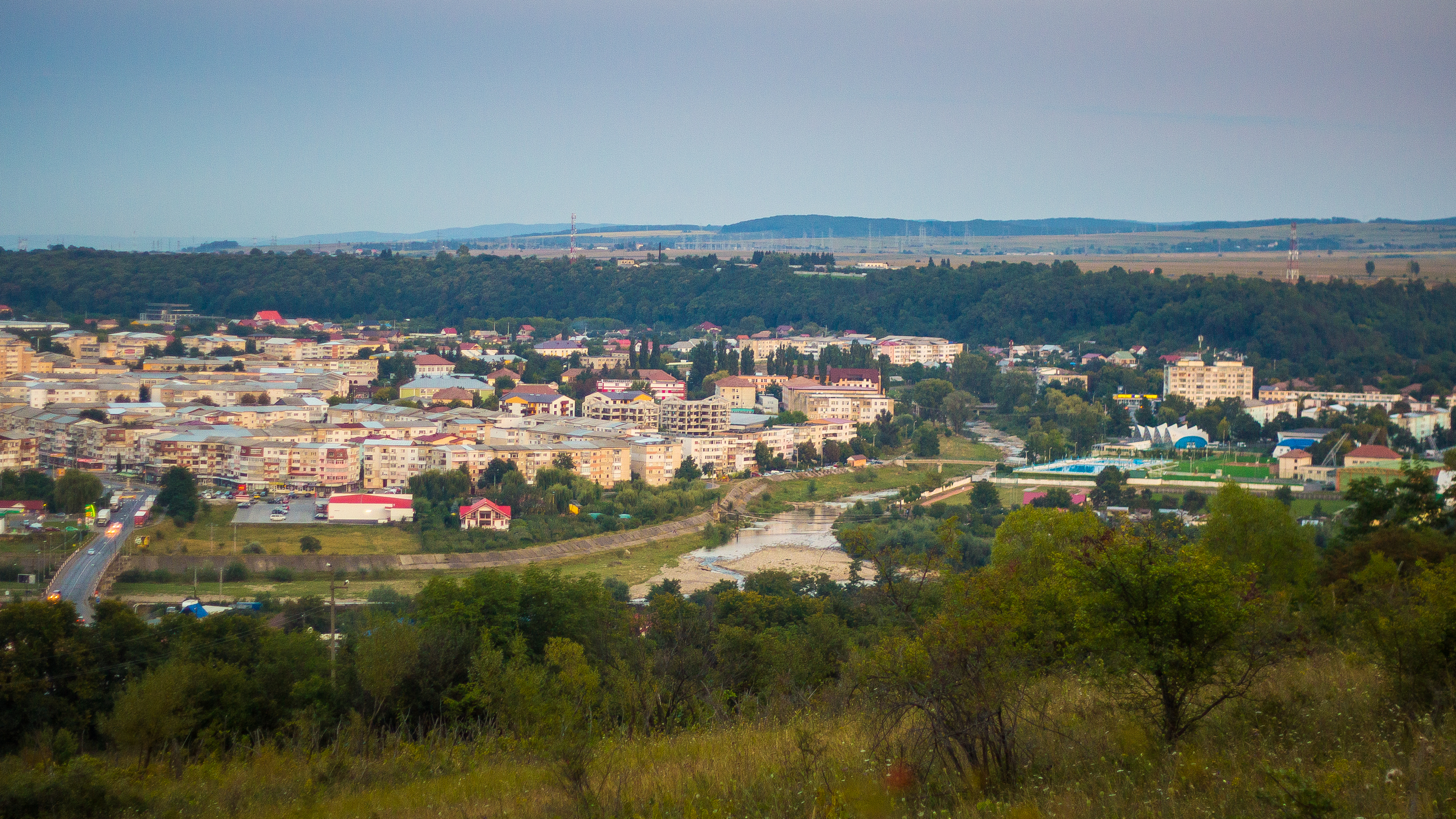 A part of Onesti seen from Perchiu hill